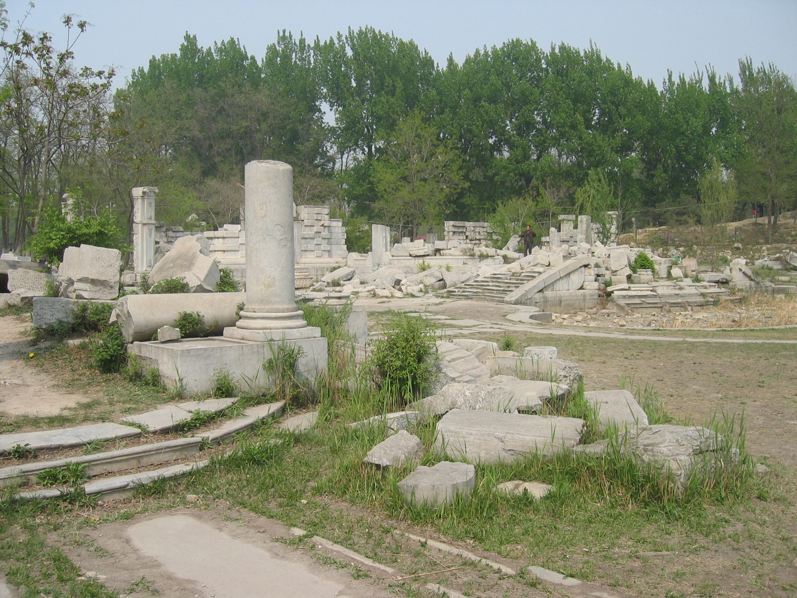 The ruins of the Xie Qi Qu in the Xiyang Lou (Western mansions) section . On the grounds of the Yunamingyuan (Old Summer Palace) — in Beijing.